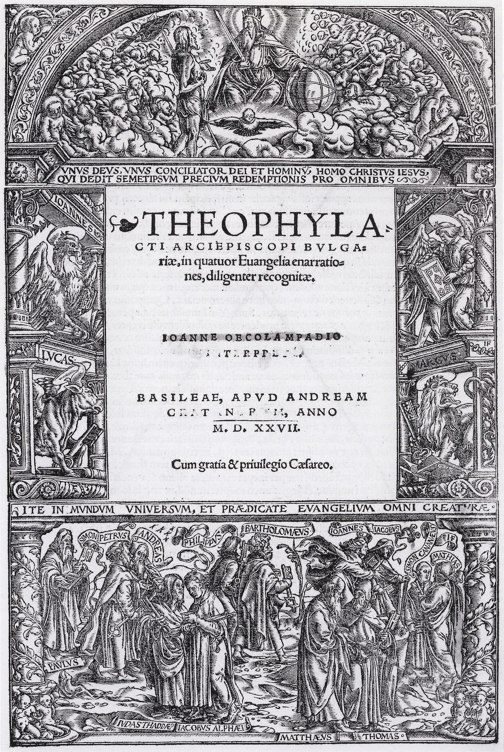 Title Page Border with Christ as Intercessor before God the Father, the Four Symbols of the Evangelists and the Mission of the Apostles. Metalcut, image 26.3 × 17.2 cm, sheet 29.5 × 20.2 cm, Kunstmuseum Basel. First used in this combination in Johannes Oecolampadius's Kommentar zu Theophylactus Archiepiscopus Bulgariae, 'In quator Evangelia enarrationes' , Basel: Andreas Cratander, March 1524. This reproduction is from the 1527 edition.